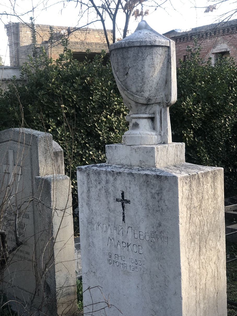 Russian section of Doulab Cemetery